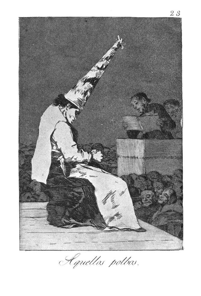 Los Caprichos is a set of 80 aquatint prints created by Francisco Goya for release in 1799.